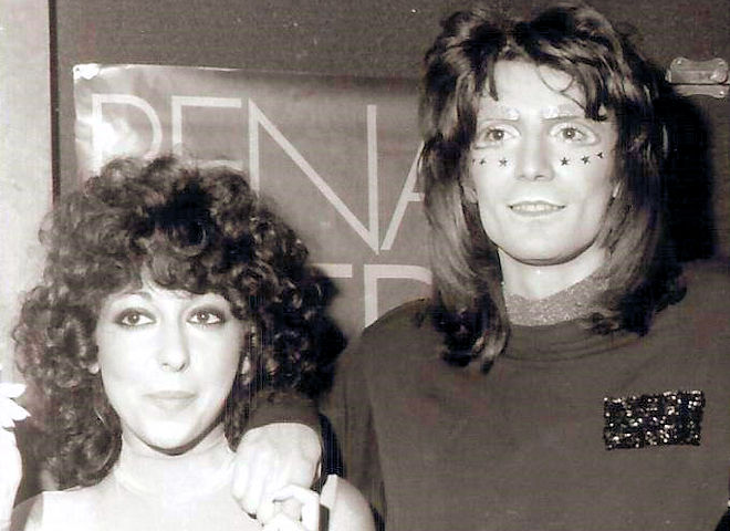 Renato Zero and Marina Marfoglia in 1973